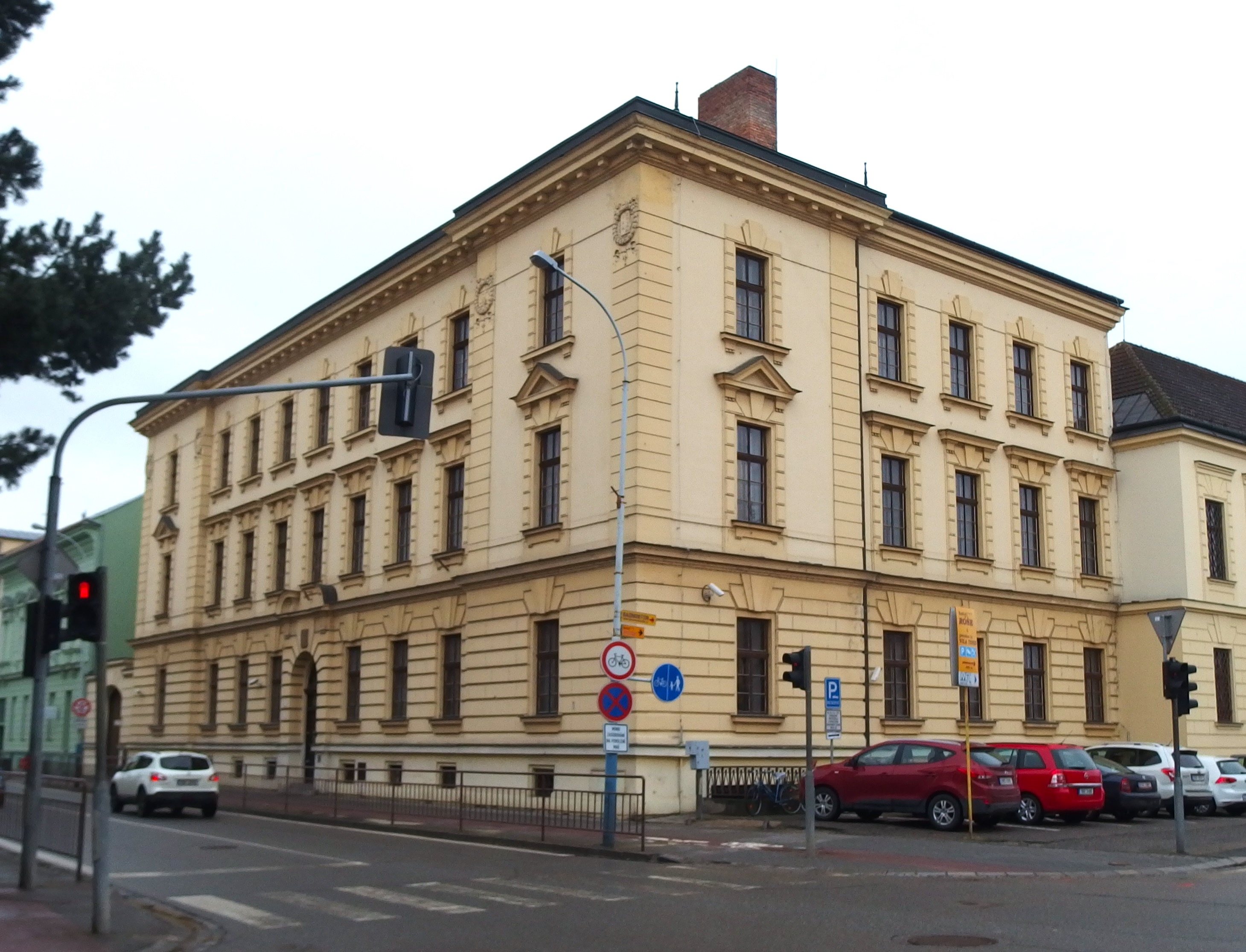 Břeclav, Czech Republic.